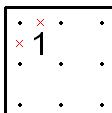 A drawing of a part of a Slitherlink game, showing how a 1 in the corner leads to certain blank spaces being known.